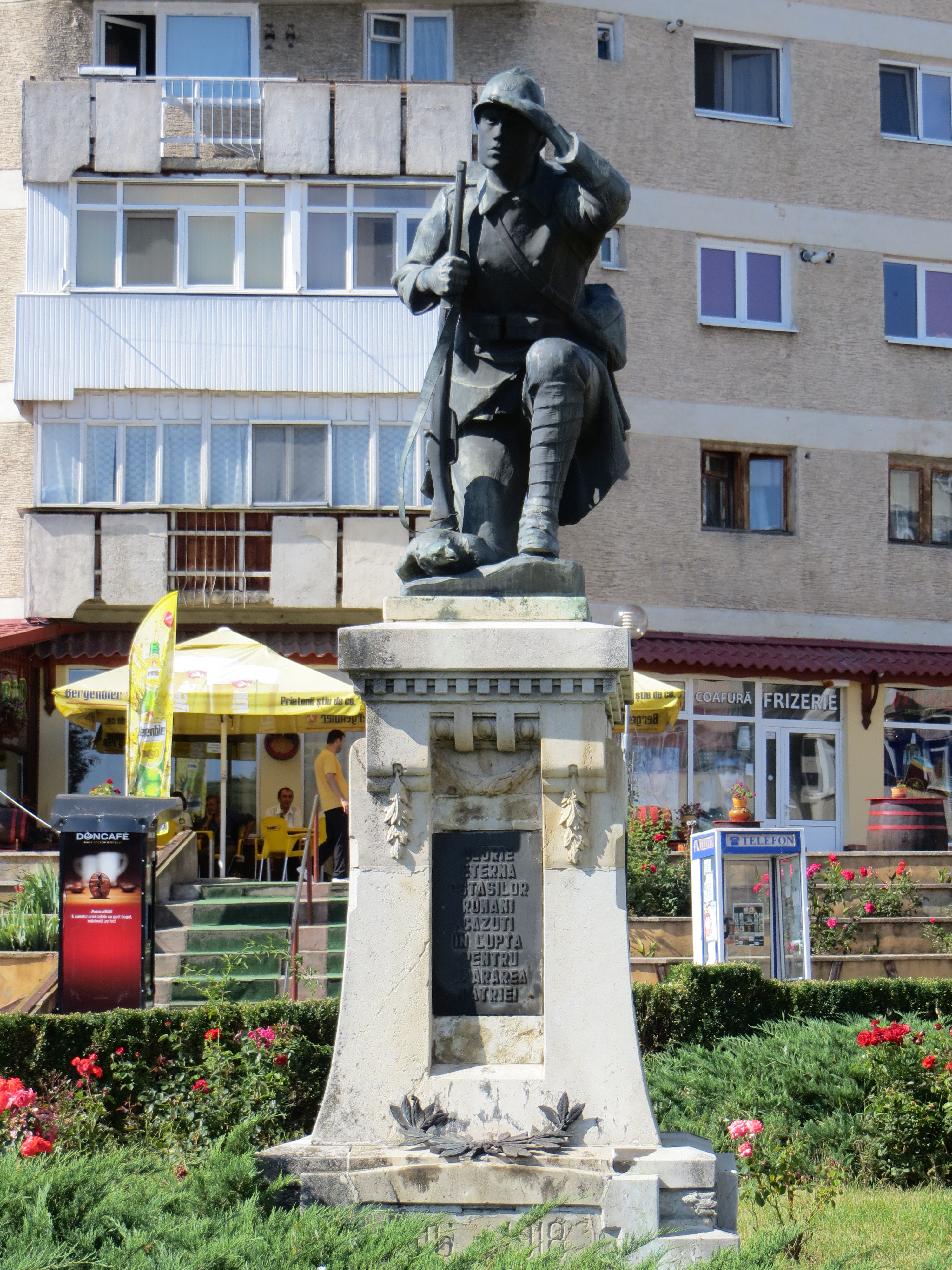 Statue of the Border Guard, Fălticeni, Suceava County, Romania.